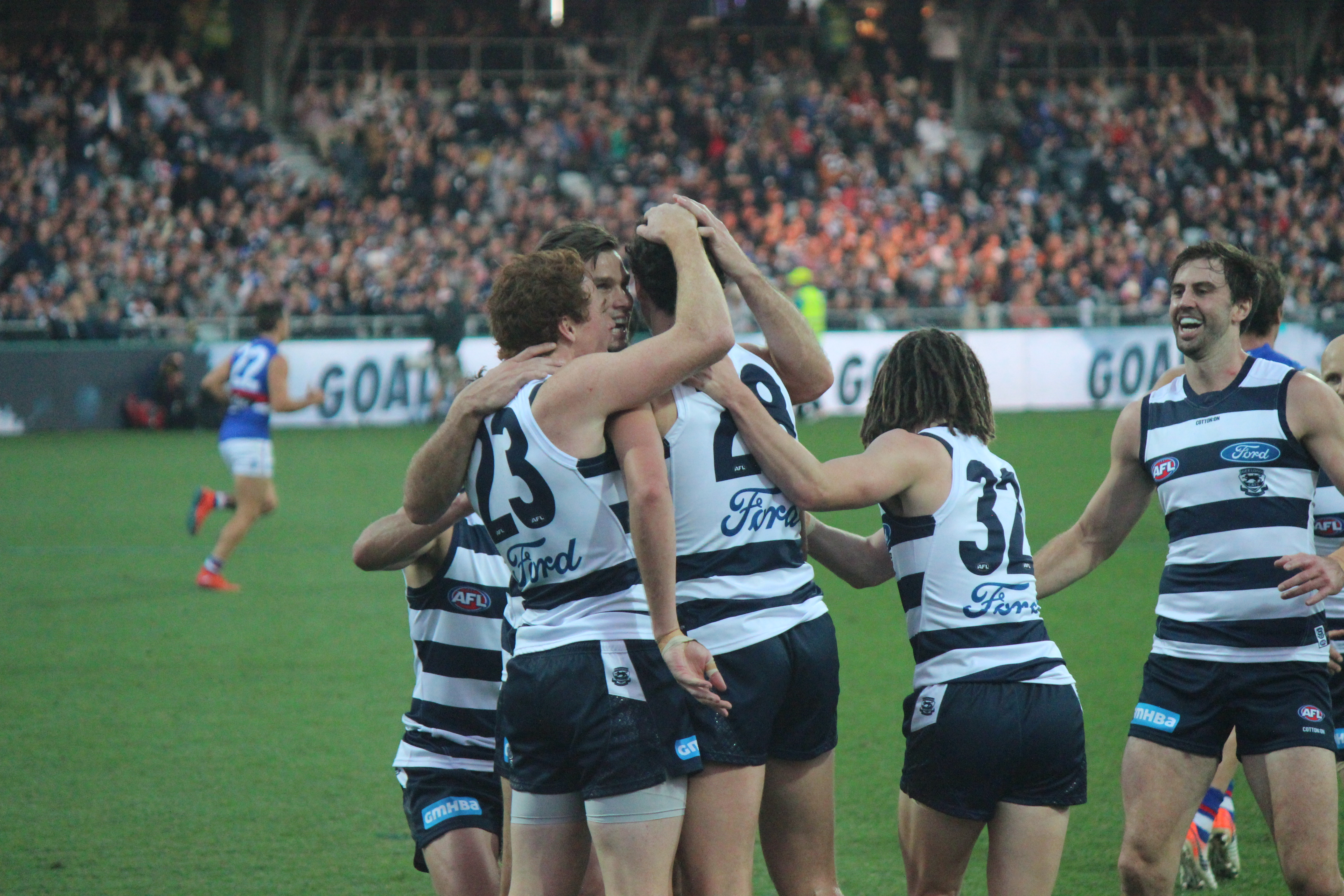 Darcy Fort celebrates his first AFL goal with Geelong during a match against Western Bulldogs at Kardinia Park in round 9 of the 2019 AFL season.